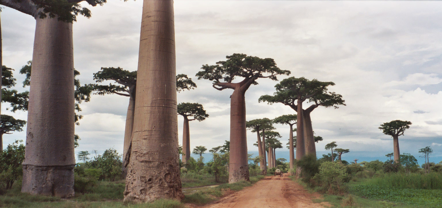 This is the avenue of the baobabs (Adansonia grandidieri) near Morondava, Madagascar.